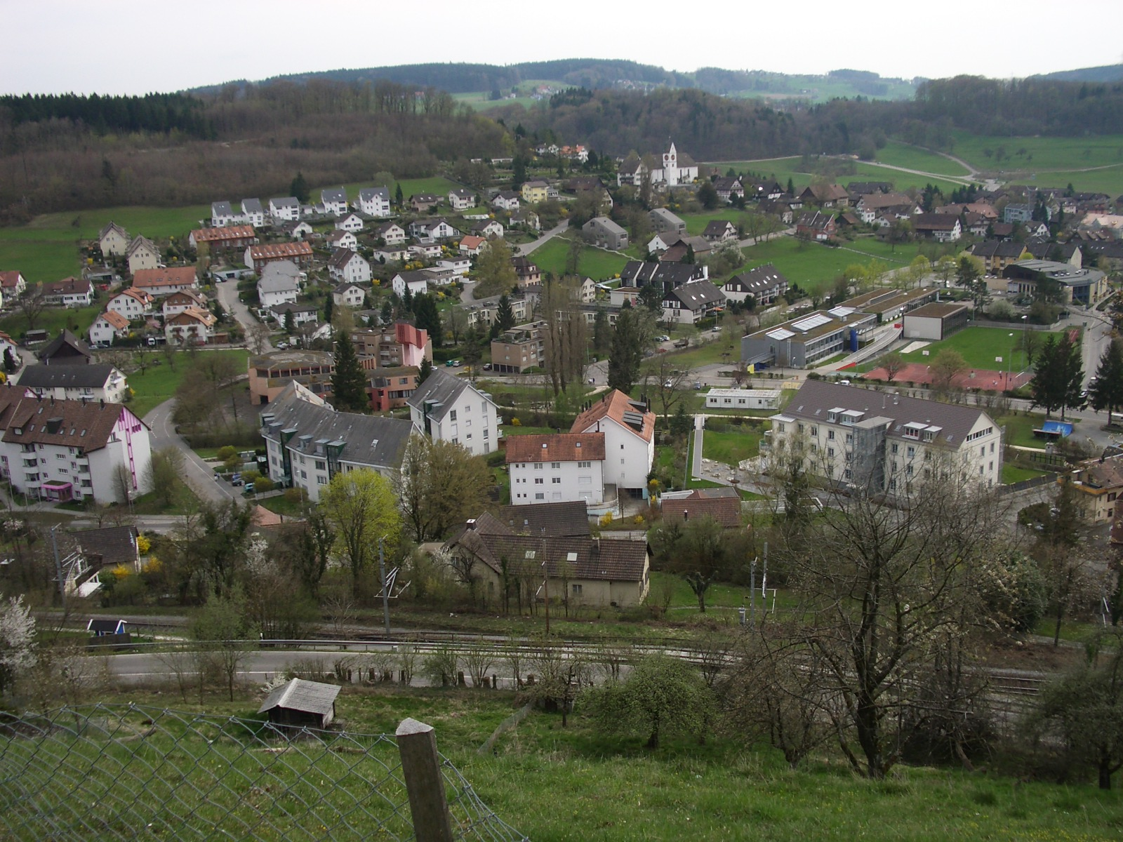 Birmensdorf ZH, Switzerland